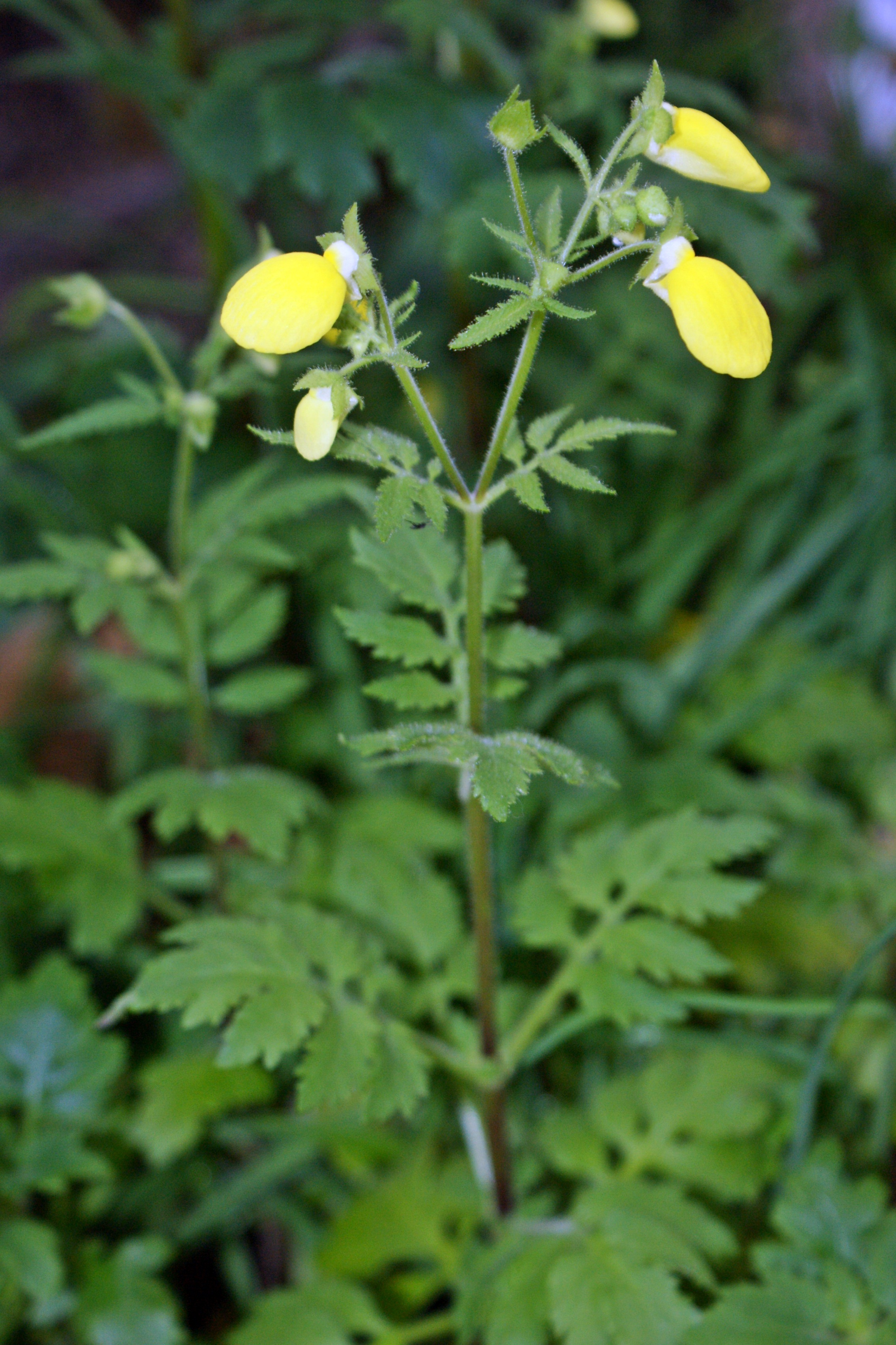 Calceolaria tripartita